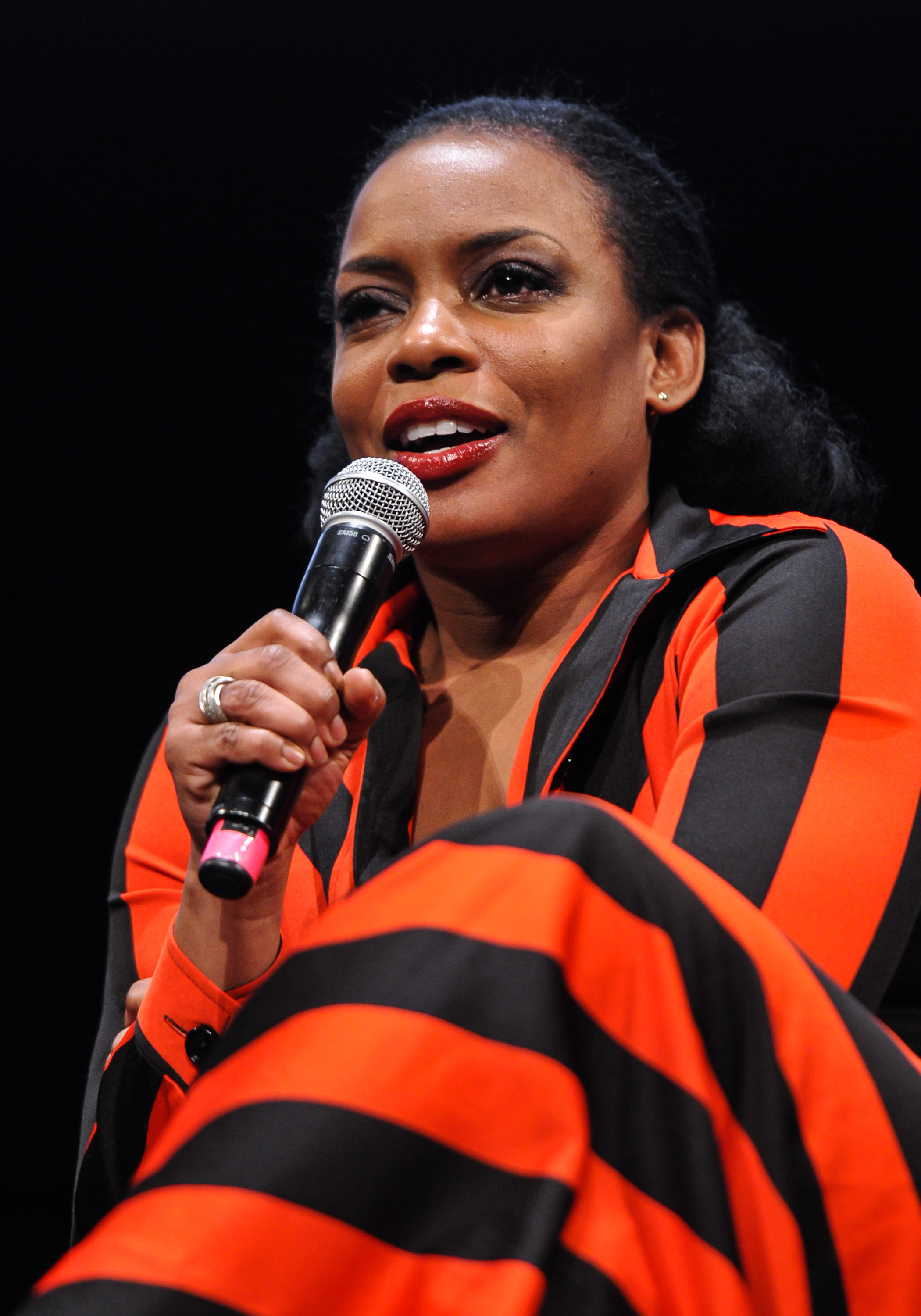 The CBC's Matt Galloway hosts an In Conversation with "The Book of Negroes" author Lawrence Hill, co-writer/director Clement Virgo and star Aunjanue Ellis at TIFF Bell Lightbox. Photos by: Sam Santos | George Pimentel Photography